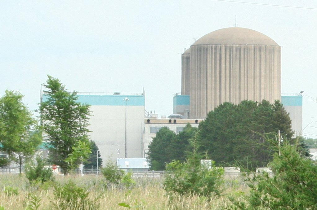 Prairie Island Nuclear Power Plant in Red Wing, Minnesota